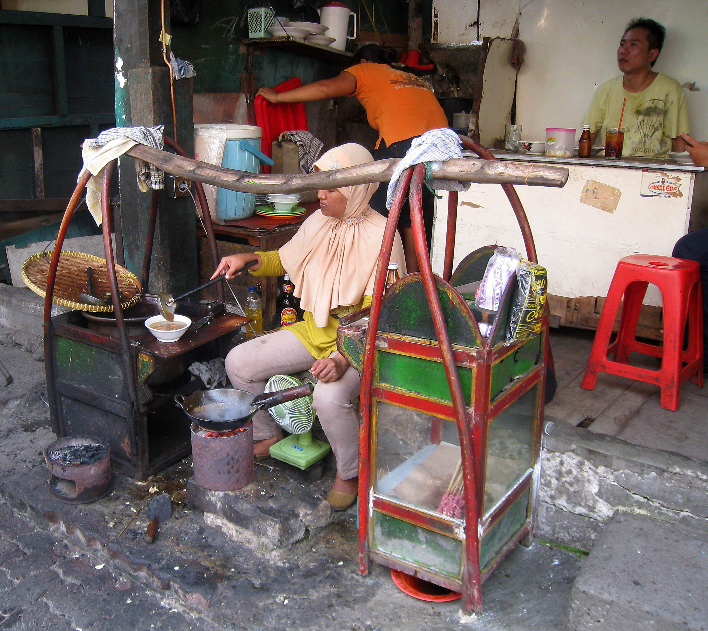 The Tongseng (Javanese spicy goat meat soup) seller in their typical cart in Glodok area, Jakarta. Tongseng is a speciality of Solo (Surakarta) city, Central Java.